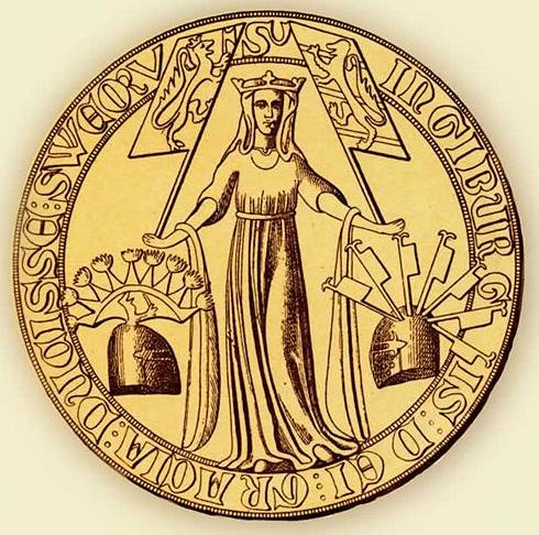 The seal of dutchess Ingeborg from 1318